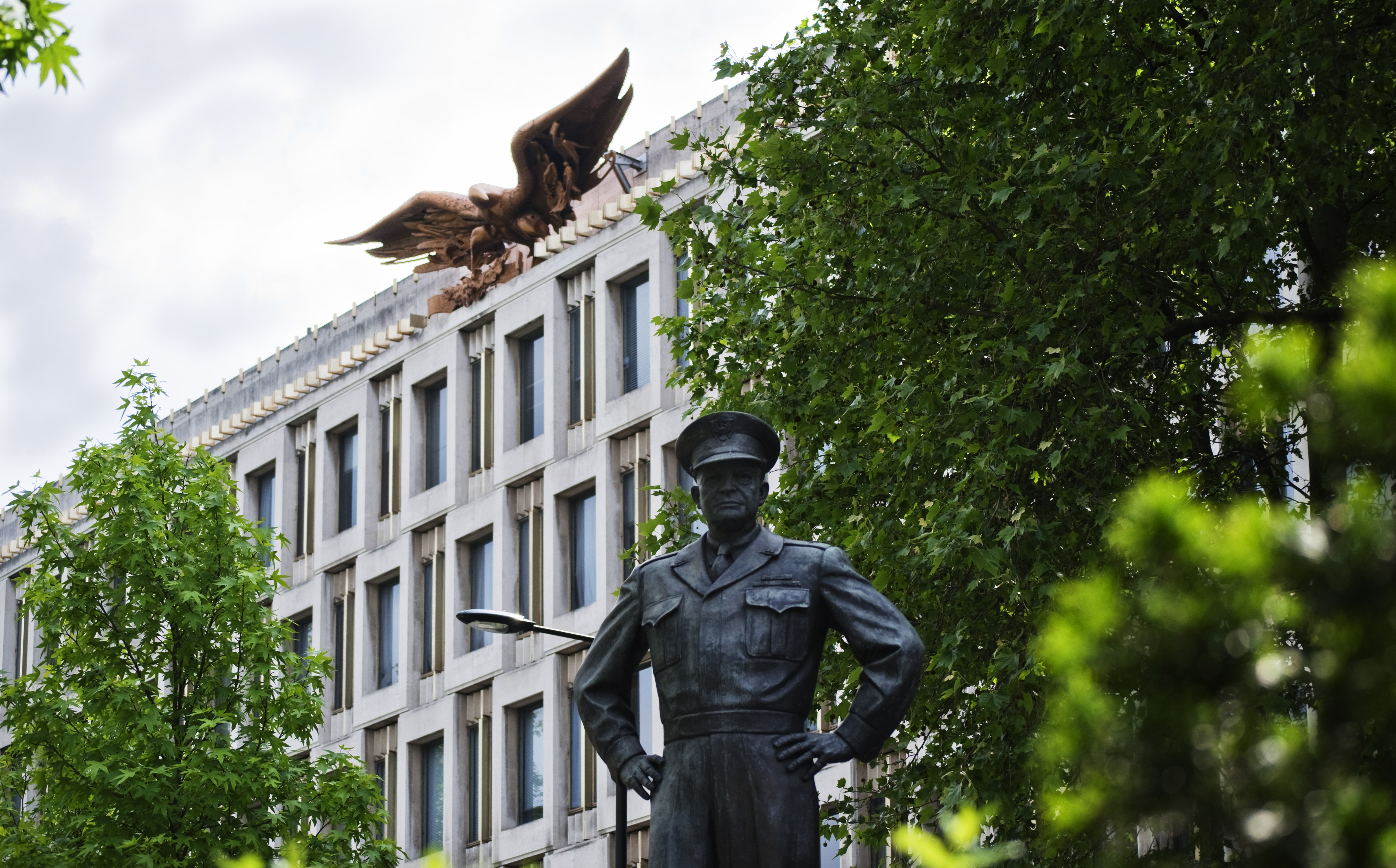 eagle, grosvenor square, Dwight D. Eisenhower, united states embassy, London